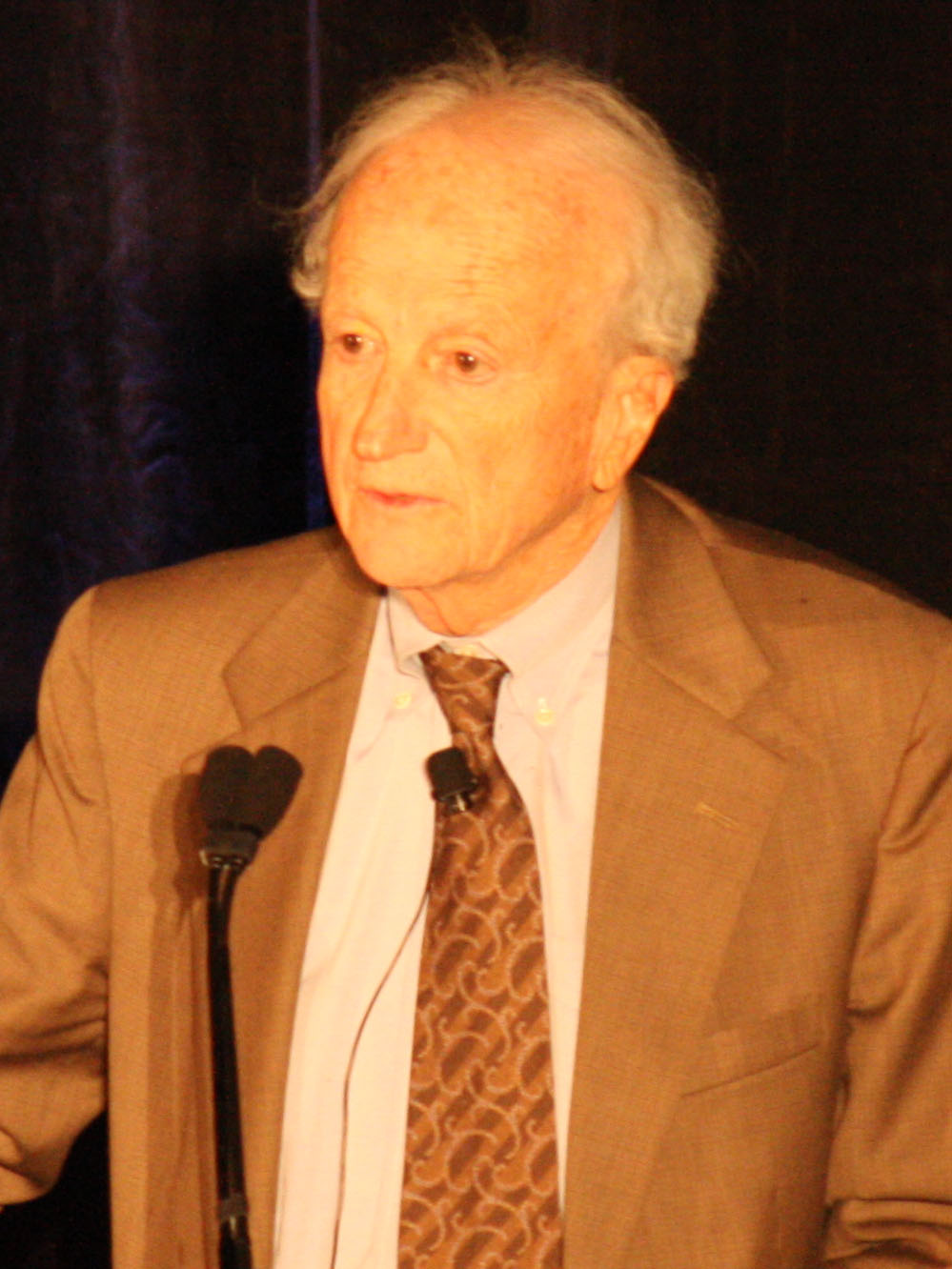 Prof. Becker speaking in Chicago at Association for Behavior Analysis International meeting (Ballroom, Chicago Hilton Hotel, 720 Michigan Avenue).